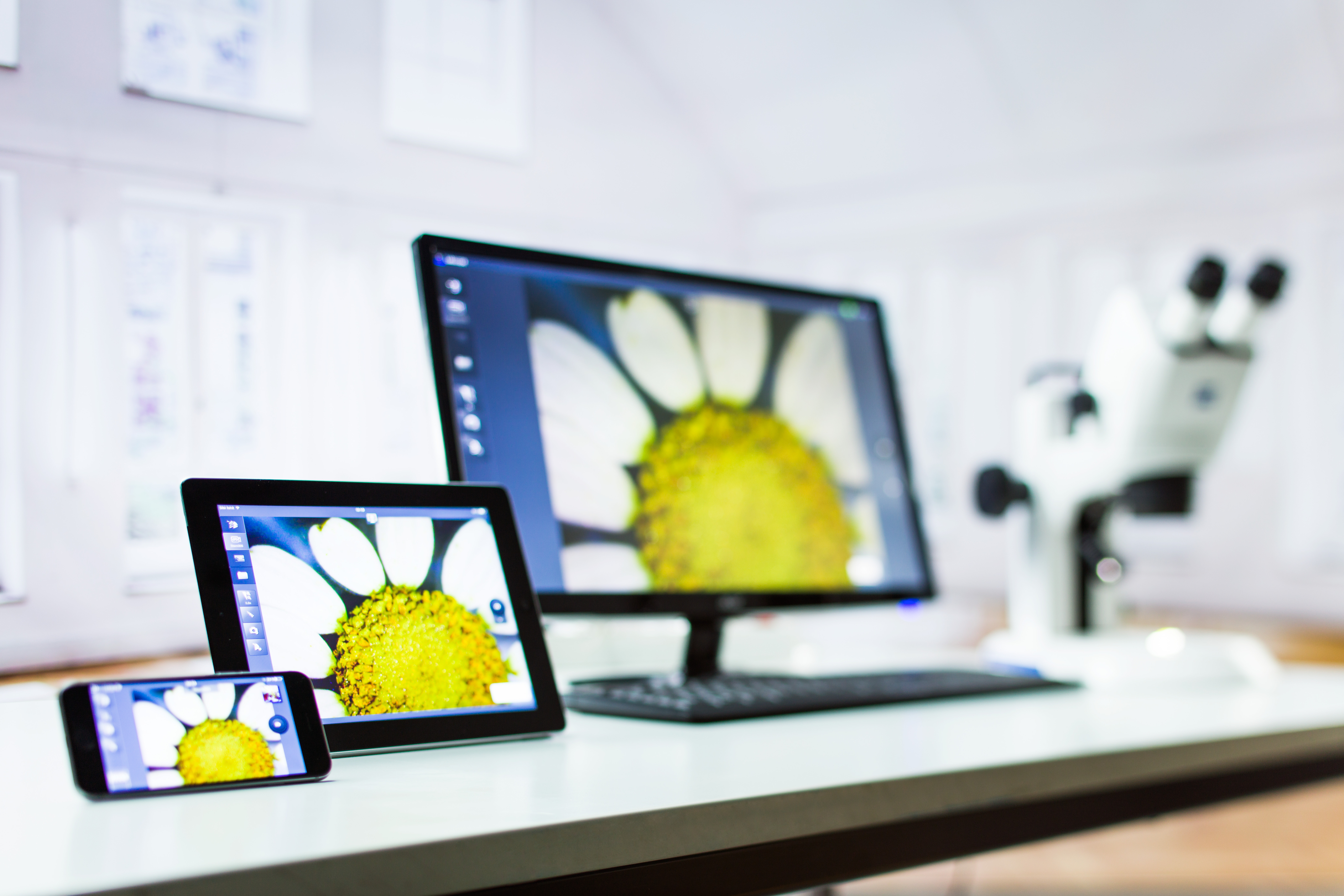 Labscope is your easy-to-use imaging software for connected microscopy. Be it for the laboratory, university, school or even your hobby – it’s easier than ever before to snap images, record videos and measure your microscopic samples. Labscope transforms your ZEISS network-compatible microscopes into a WiFi-enabled imaging system. The easy-to-use imaging software for digital classrooms and routine lab work now supports iPhone, iPad and Microsoft Windows PC systems. Images donated as part of a GLAM collaboration with Carl Zeiss Microscopy - please contact Andy Mabbett for details.